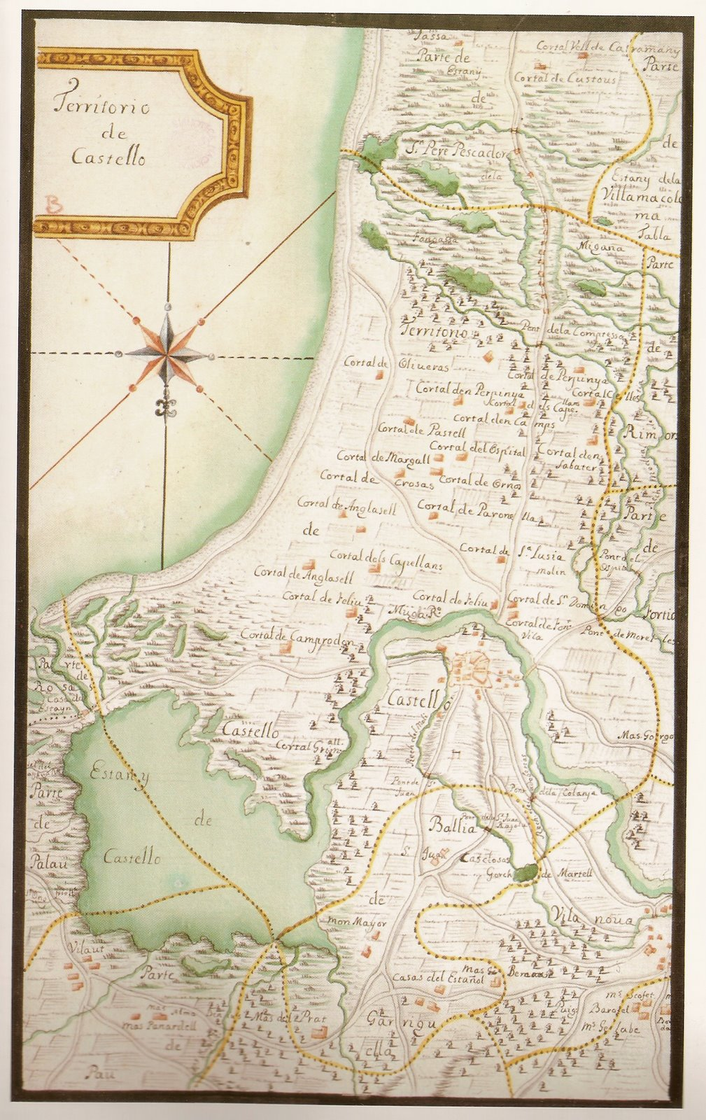 Map of the municipality of Castelló d'Empuries in the XVIII century.